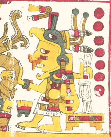 A drawing of Chicomecoatl, one of the deities described in the Codex Borgia